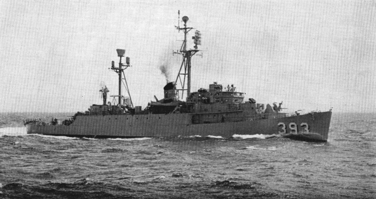 The U.S. Navy radar-picket destroyer escort USS Haverfield (DER-393) underway, circa 1960.